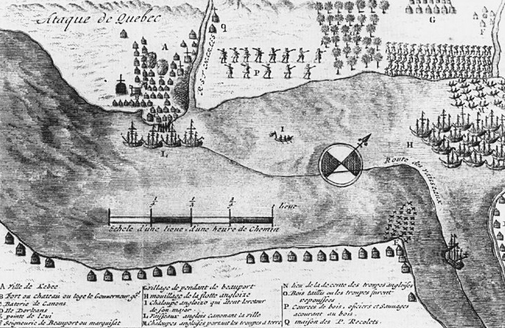 Drawing depiction the 1690 Battle of Quebec.